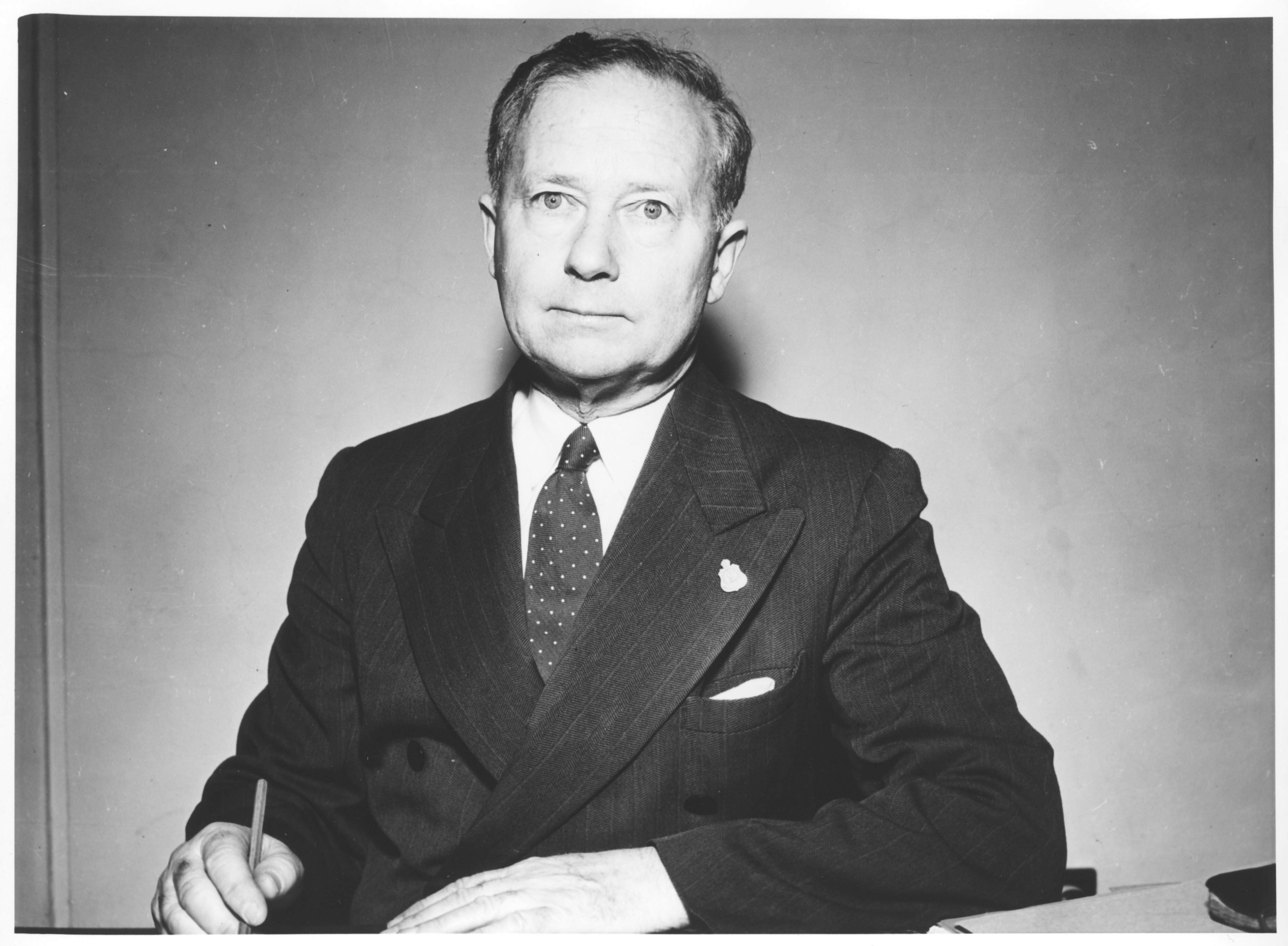 Australian politician Thomas Walter White